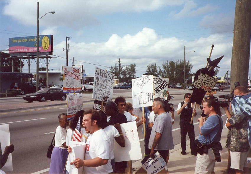 2000 presidential election recount in Palm Beach County: protestors